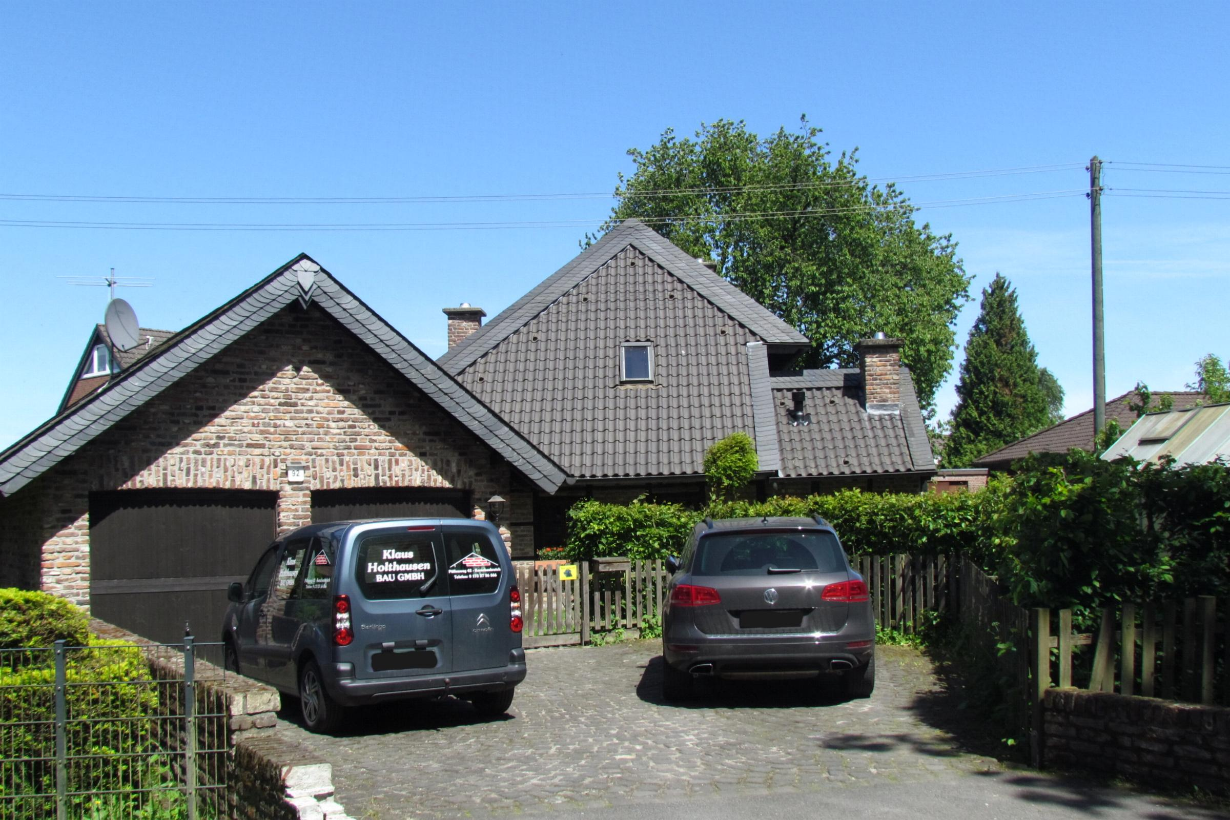 This is a photograph of an architectural monument.It is on the list of cultural monuments of Korschenbroich